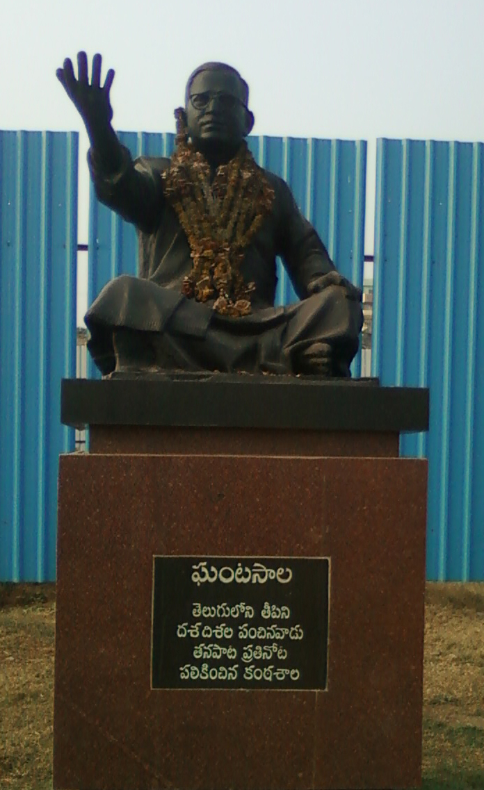 Ghantasala Venkateswara Rao Statue at RK Beach Road, Visakhapatnam